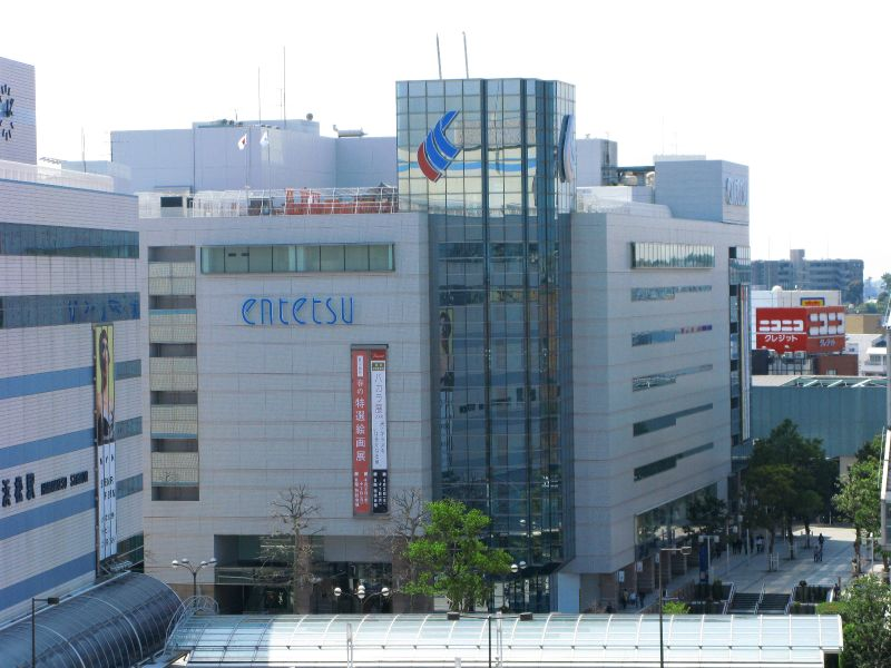 Entetsu Department Store in Hamamatsu City, Shizuoka Prefcture, Japan